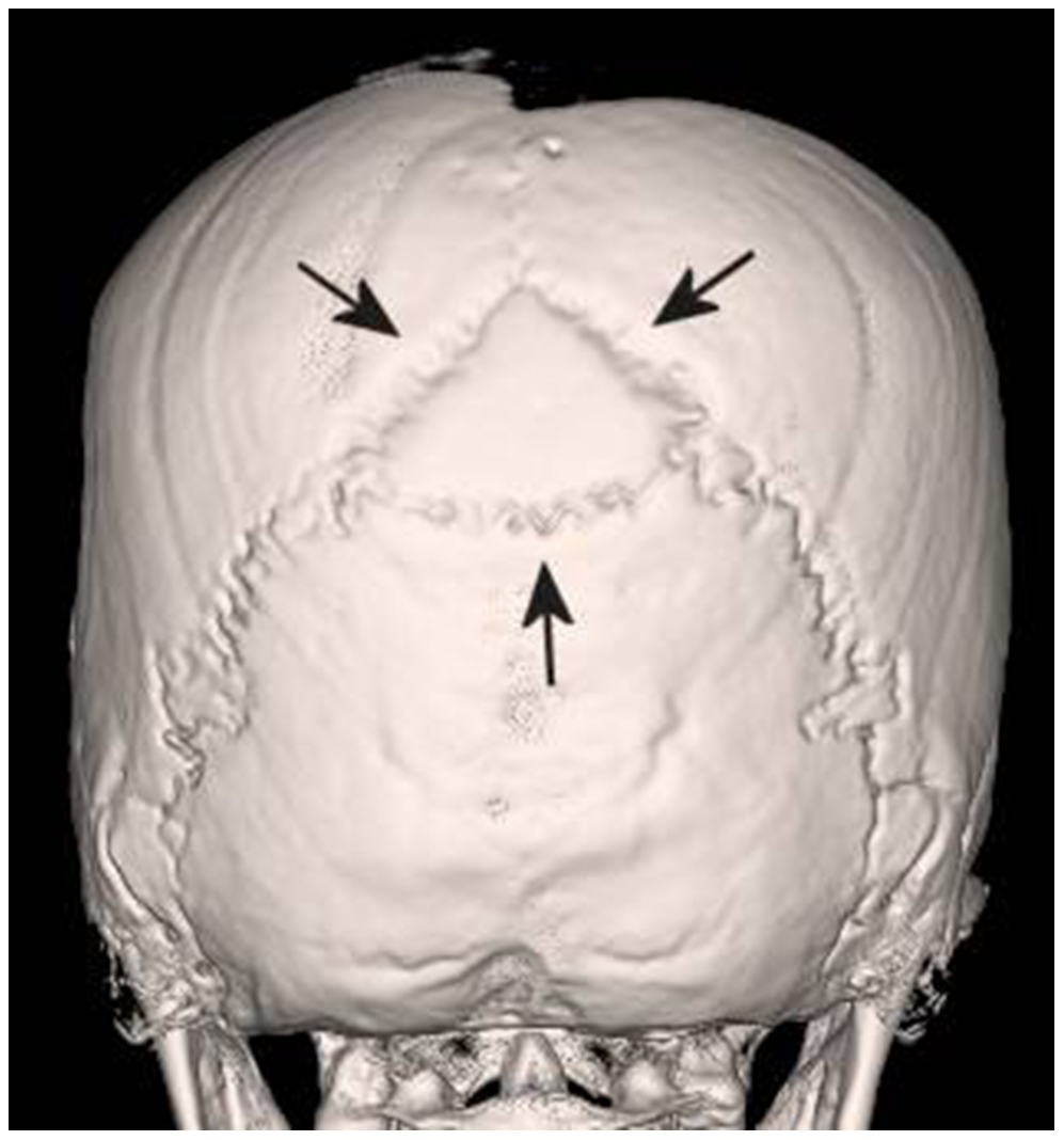 Paleoradiology – The Wormian “Inca” bone. Three-dimensional reconstruction of the head with back view demonstrating an Inca bone. This anatomical variation represents an additional bone in the lambdoid suture. The present type of Inca bone is typically seen in South American populations, but not in European ones.